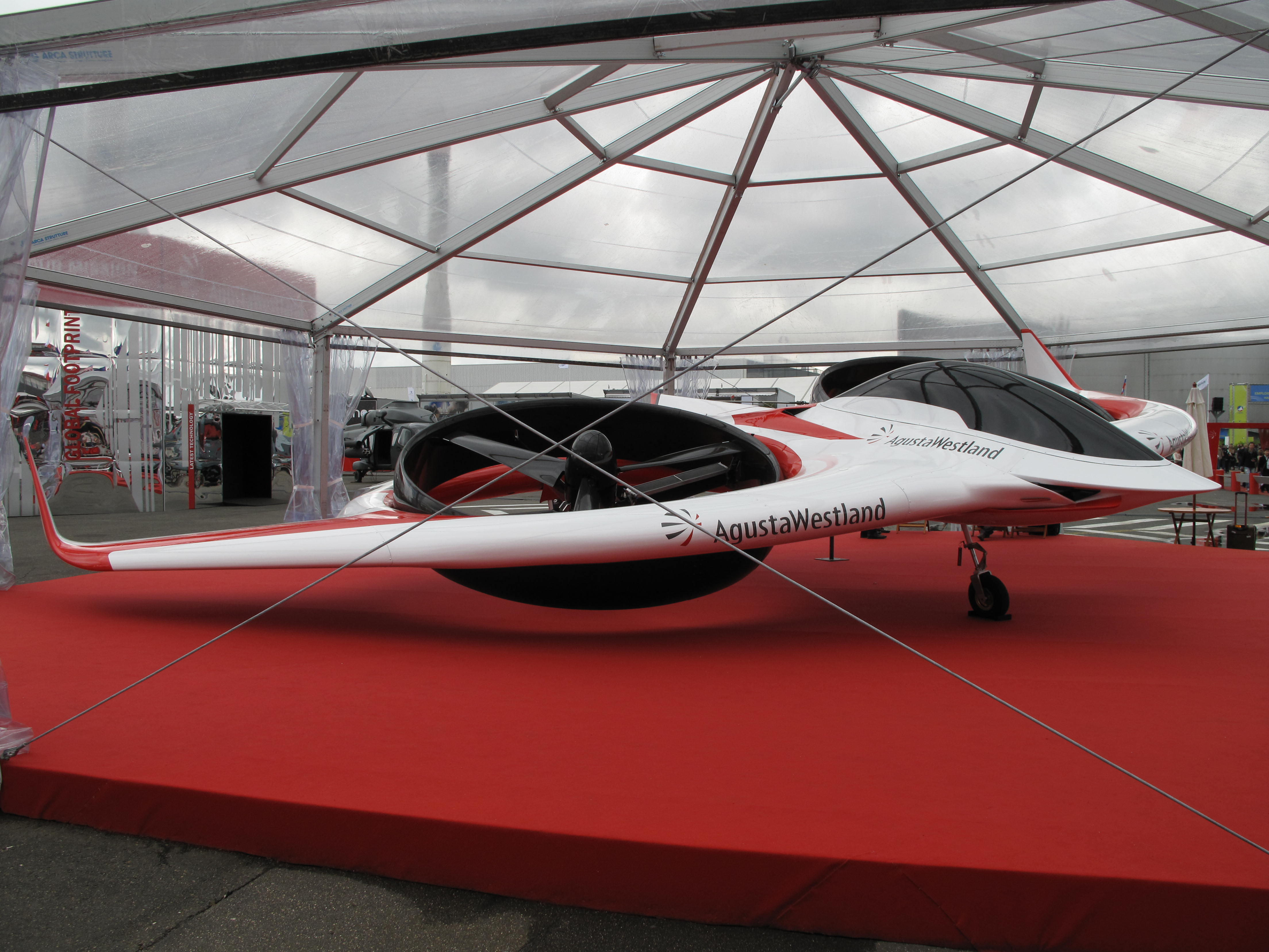 Experimental plane Project Zero of the Italian company AgustaWestland at the Paris Air Show 2013